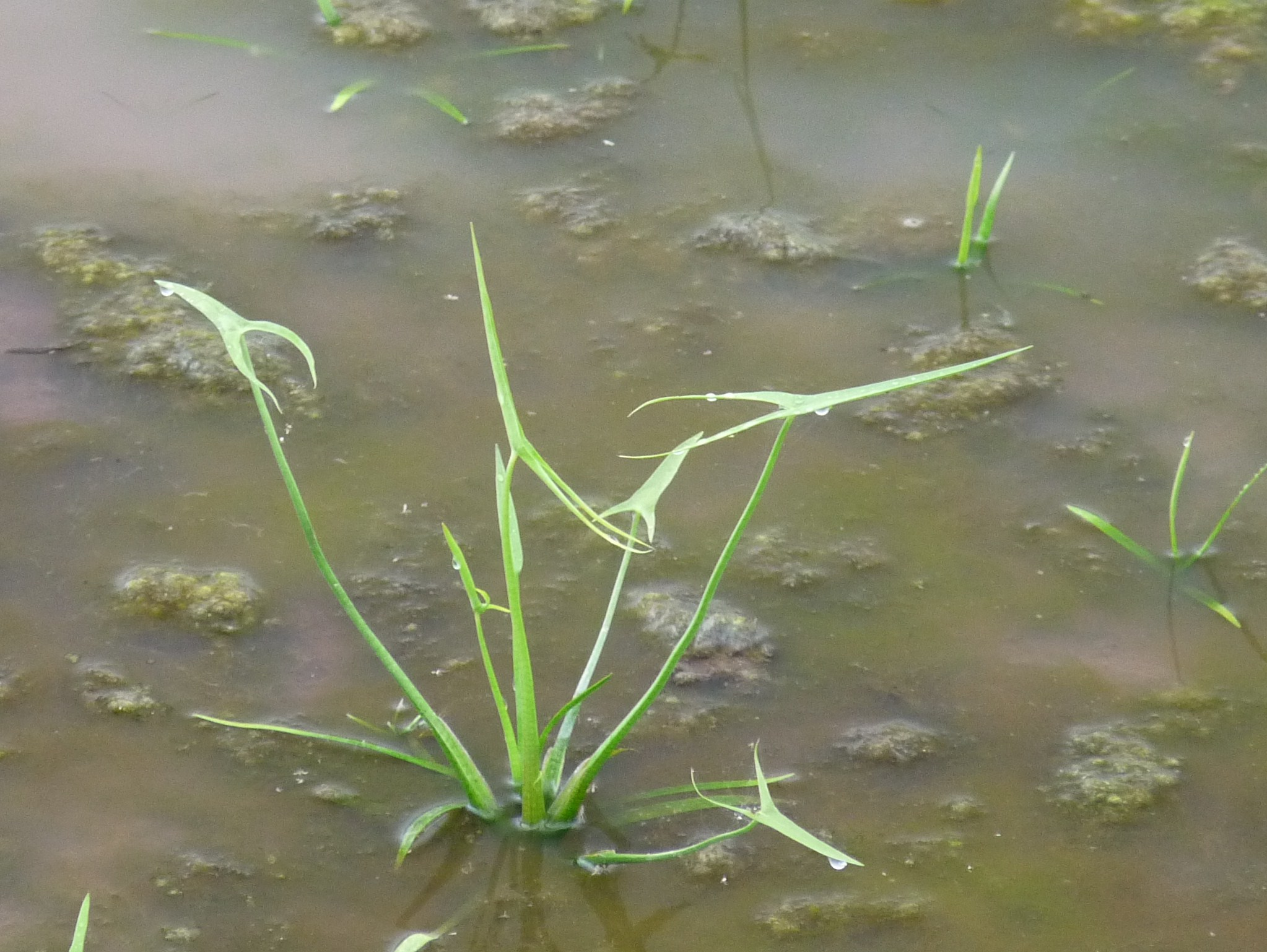 Sagittaria trifolia